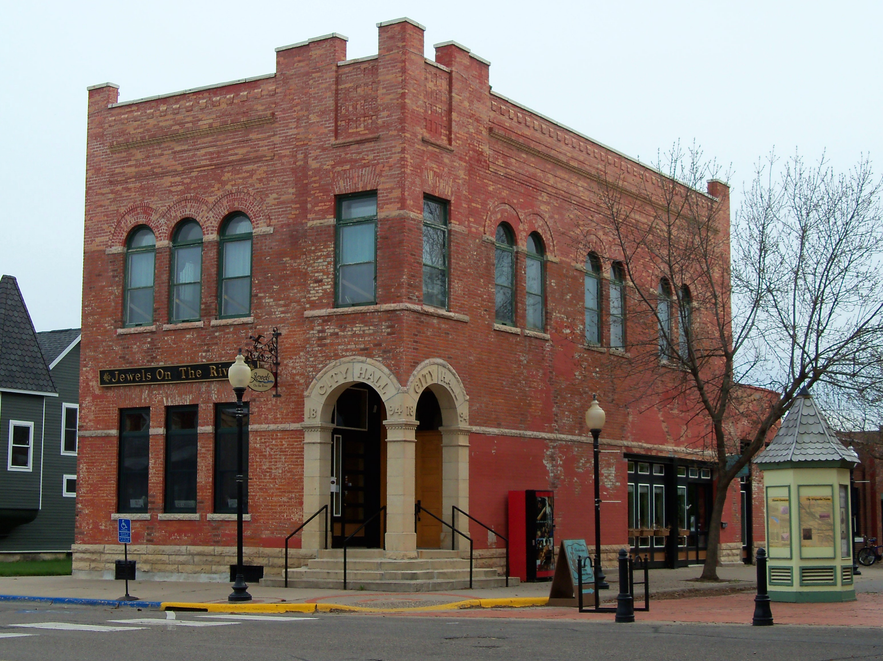 Old Wabasha City Hall in Wabasha, Minnesota, USA.